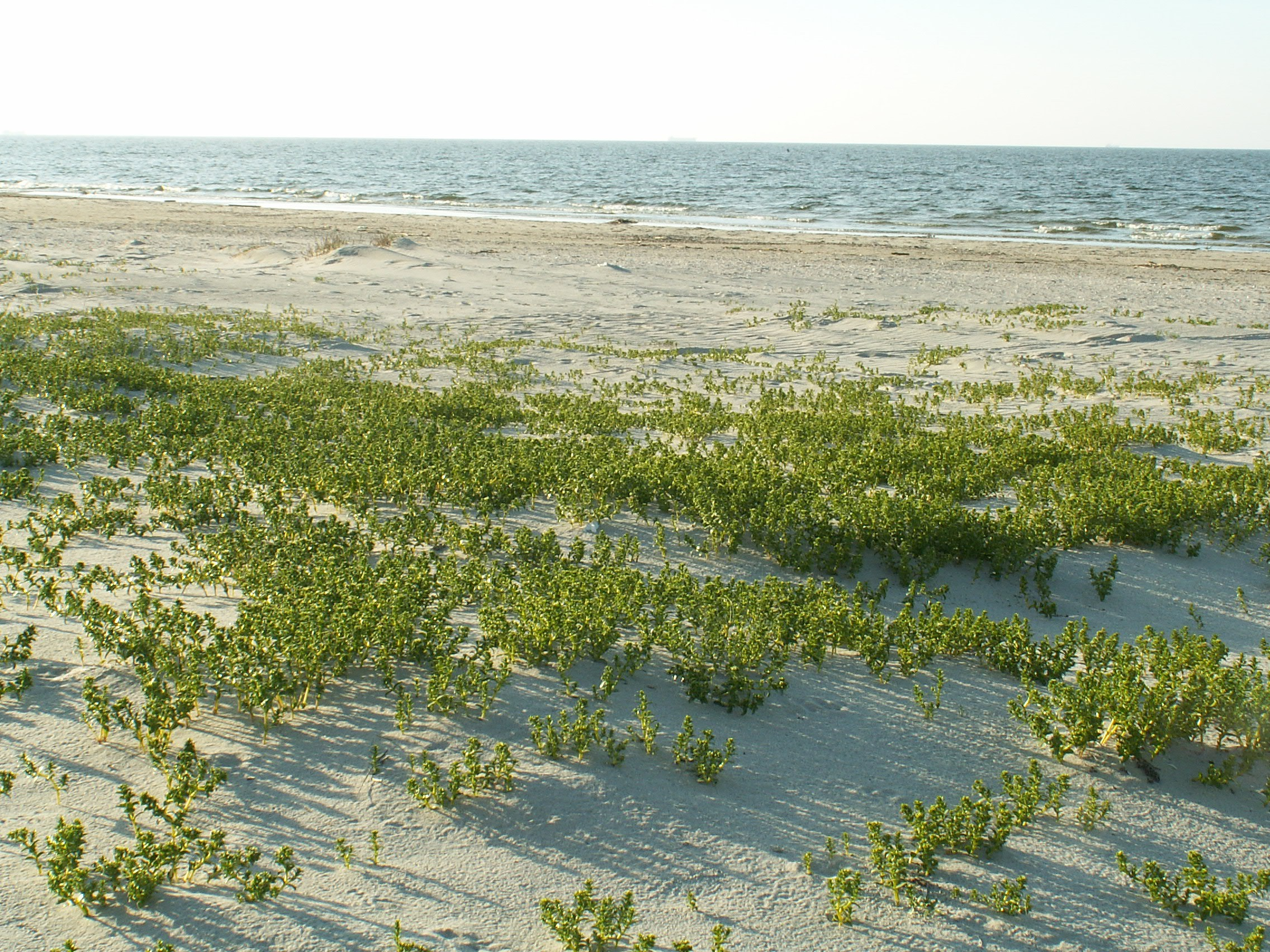 Honckenya peploides on the Baltic see. Swinoujscie NW Poland